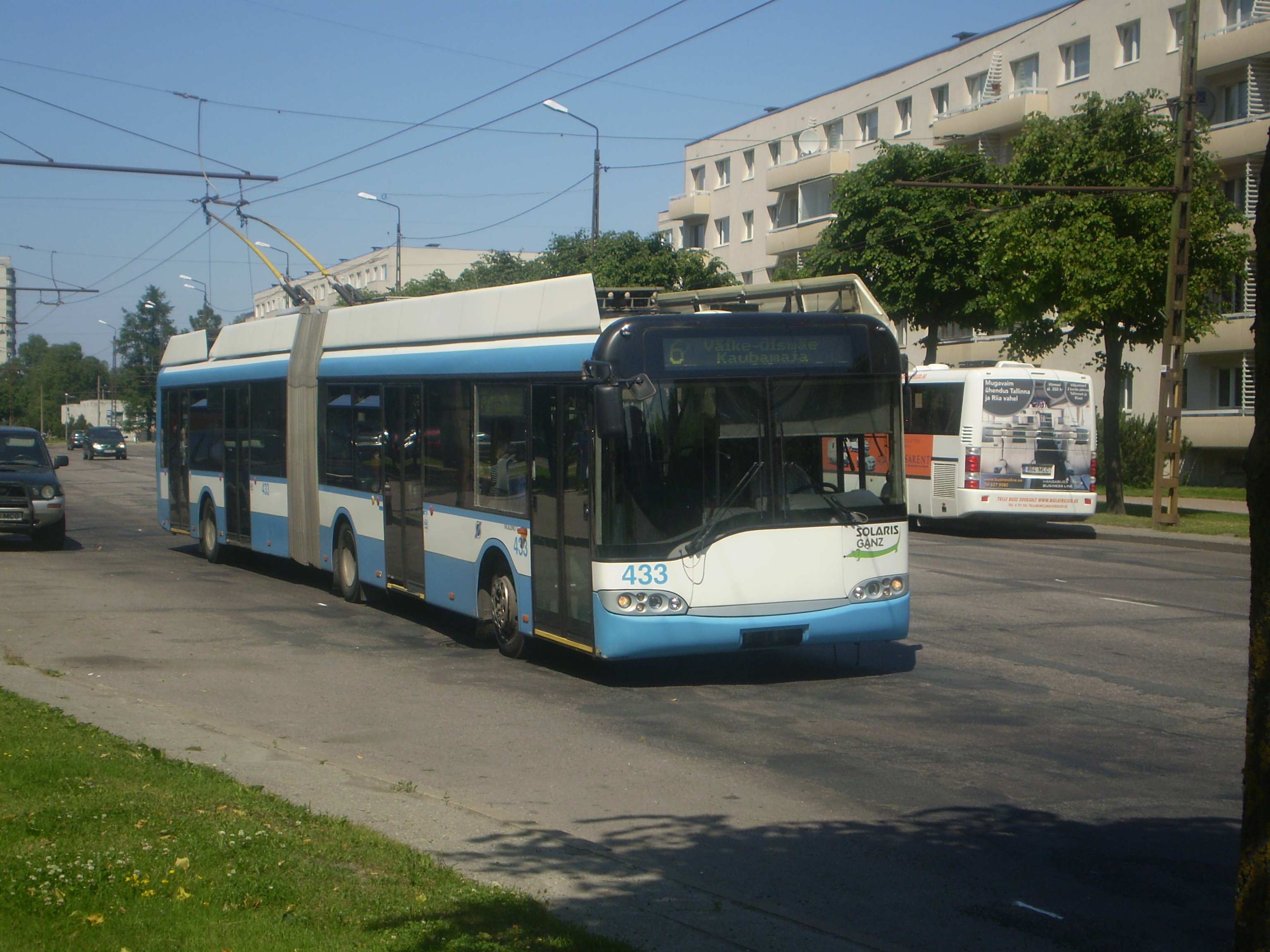 Solaris T18 in Tallinn.